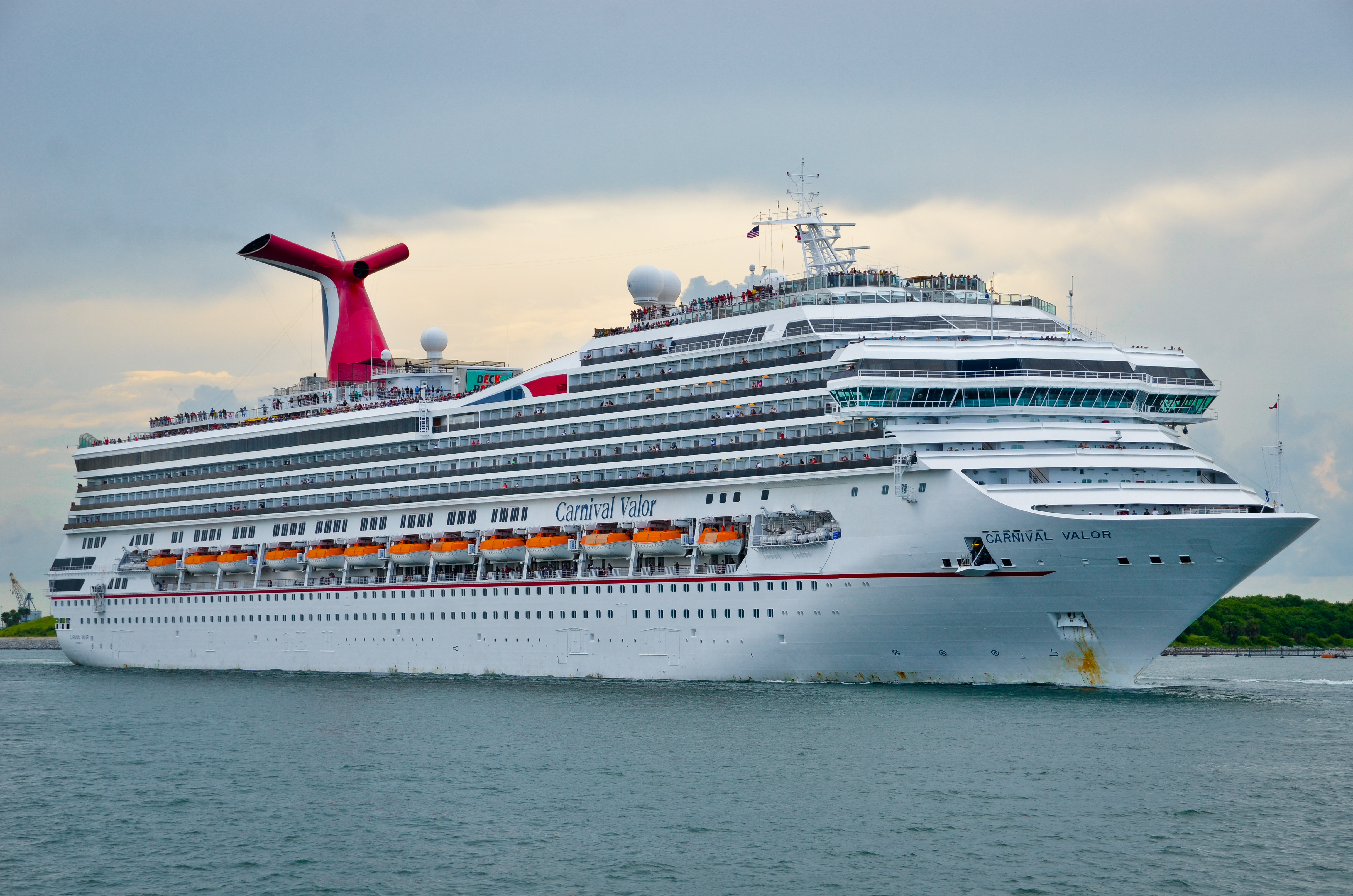 Carnival Valor Cruise Ship (3)